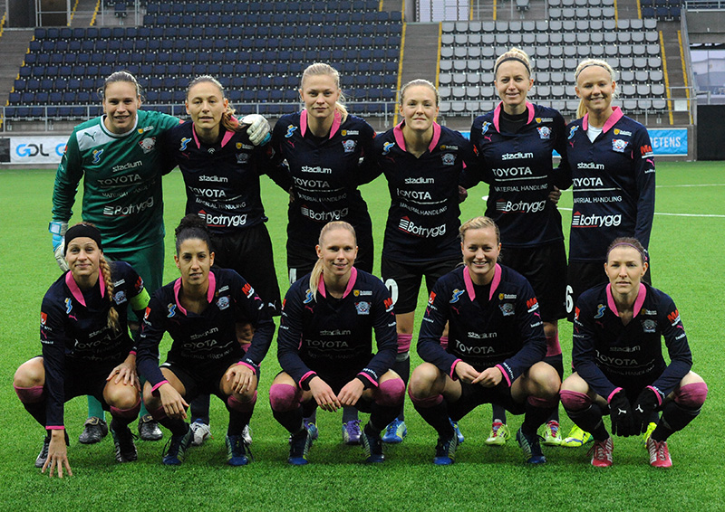 Linköpings FC team group in November 2014 before UWCL match against Zvezda 2005